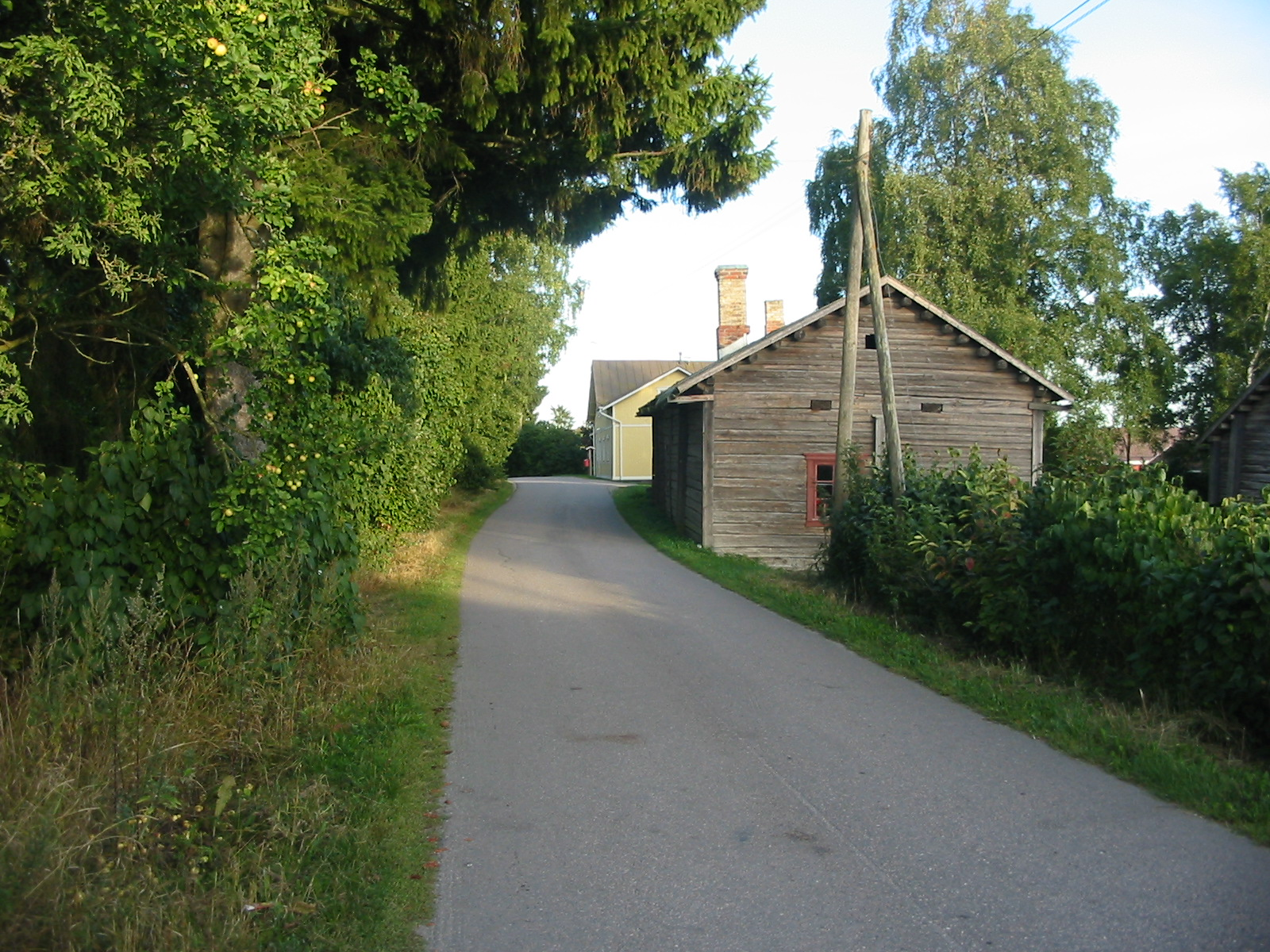 Untamala Village in Laitila, Finland Proper, Finland: The village museum, an old peasant hous by the main road of the village